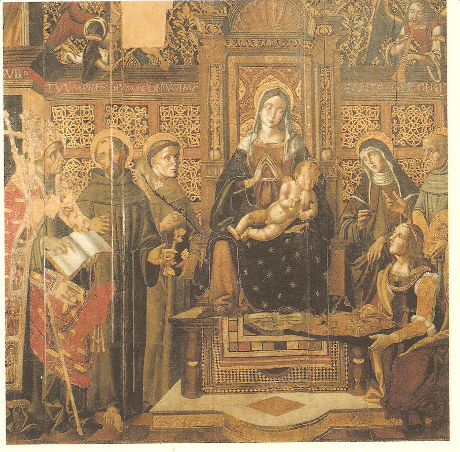 coming from the destroyed church of Saint Anthony to "Li Cappuccinn" to Atri.